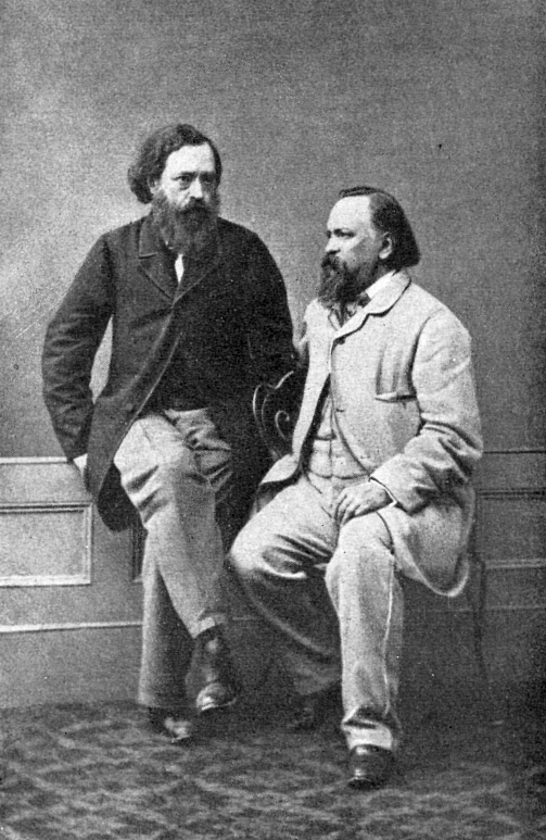 Alexander Herzen and Nikolai Ogarev.